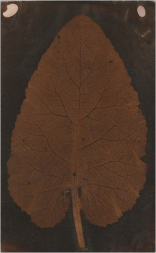 A photogram (shadow image on photographic paper) of a leaf, listed for auction sale in 2008 as possibly made by Thomas Wedgwood around the year 1800 and therefore the oldest known surviving photograph of any kind. The suggested attribution to Wedgwood was highly controversial and the photogram was withdrawn shortly before the scheduled sale so that it could be scientifically analyzed. As of March 2015 nothing more has been heard.